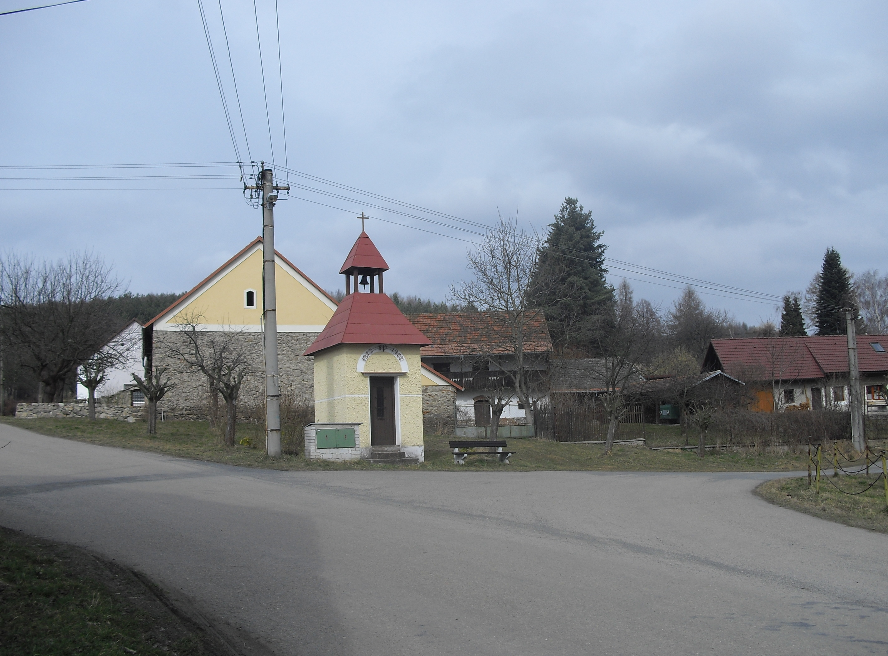 Votice, Benešov District, Czech Republic, part Beztahov.